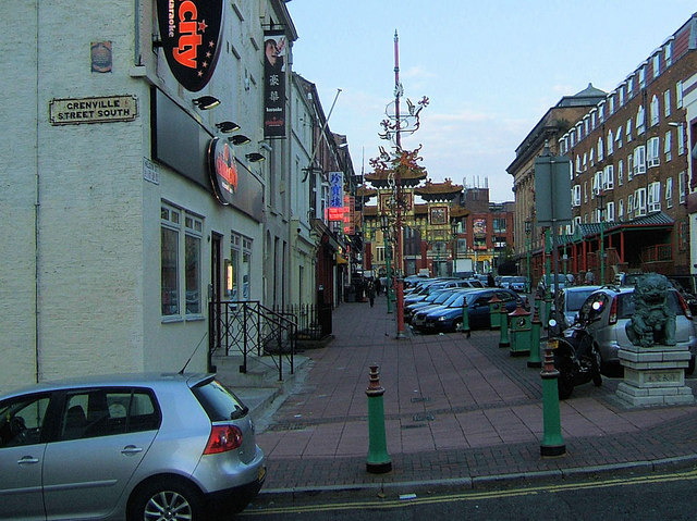 China Town, Liverpool Taken at the junction of Nelson Street and Grenville Street South. This could be a nice area if it was pedestrianised